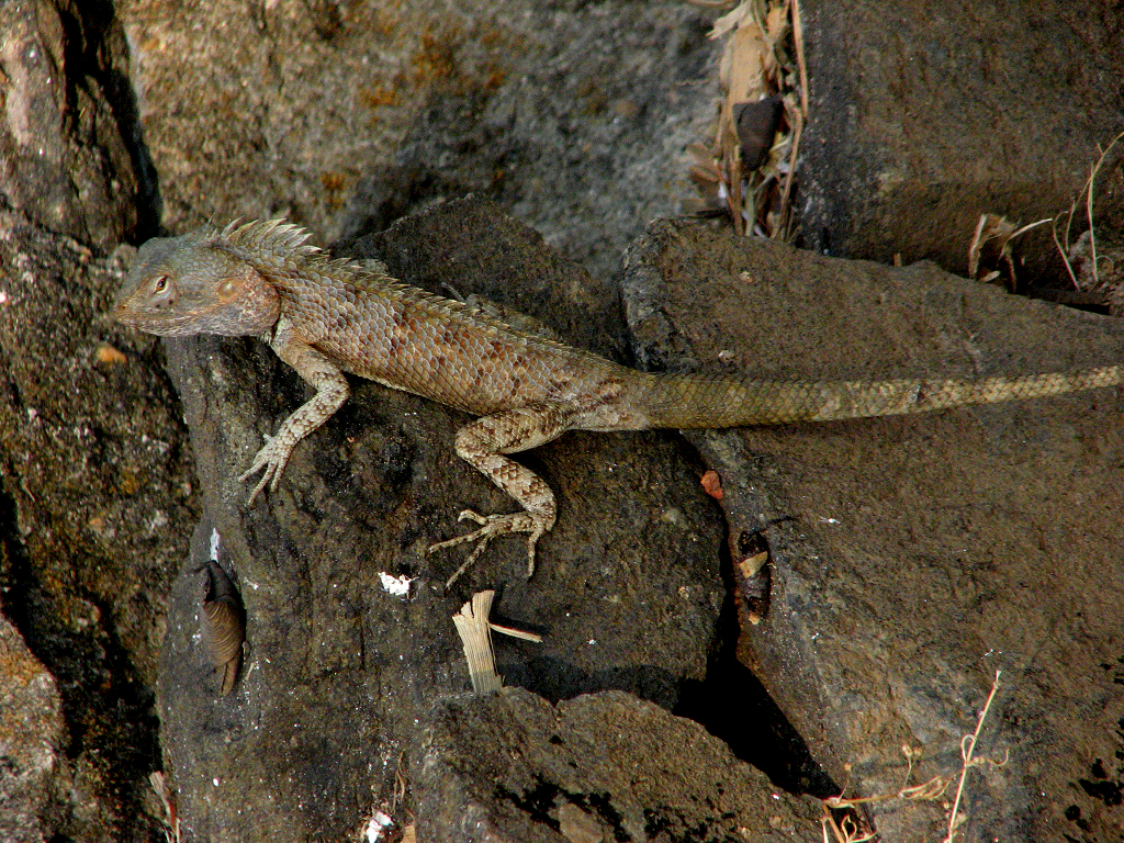 Oriental Garden Lizard (Calotes versicolor), Fort Cochin, India